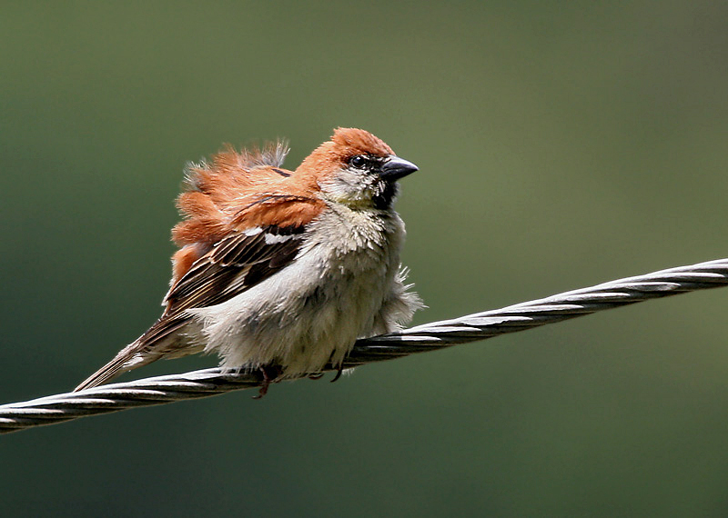 Russet Sparrow Passer rutilans in Kullu District of Himachal Pradesh, India. Generally seen (keeps in flocks outside breeding season- April to August) in summers from 4000 ft. to 9000 ft. in light forests & near hill villages & human habitation, taking place of House Sparrows, where they do not occur. It has sides of throat & center of belly pale yellow.